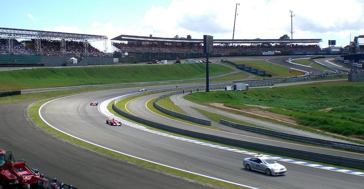 Formula One 2006 Rd.18 Interlagos: Safety Car leads